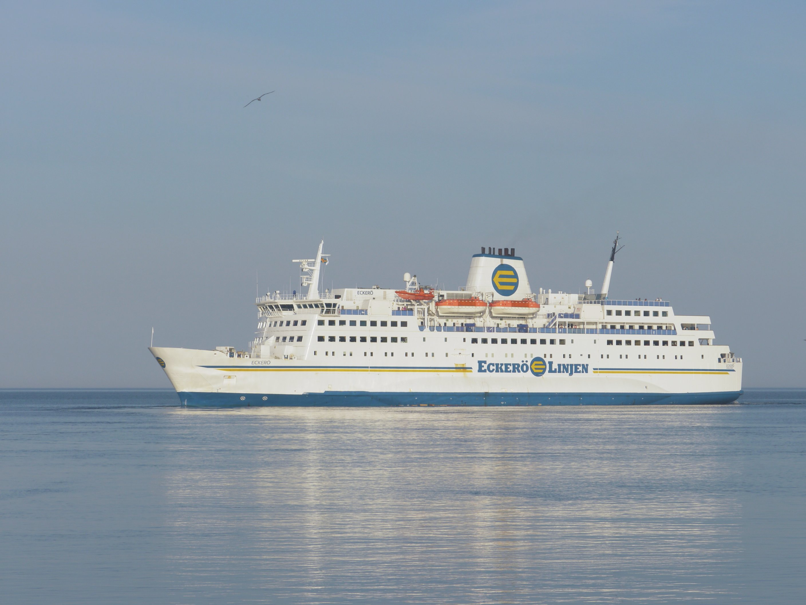 MS Eckerö - ferry boat of Eckerö Linjen, linking Grisslehamn (Sweden) and Berghamn on Eckerö (Åland).